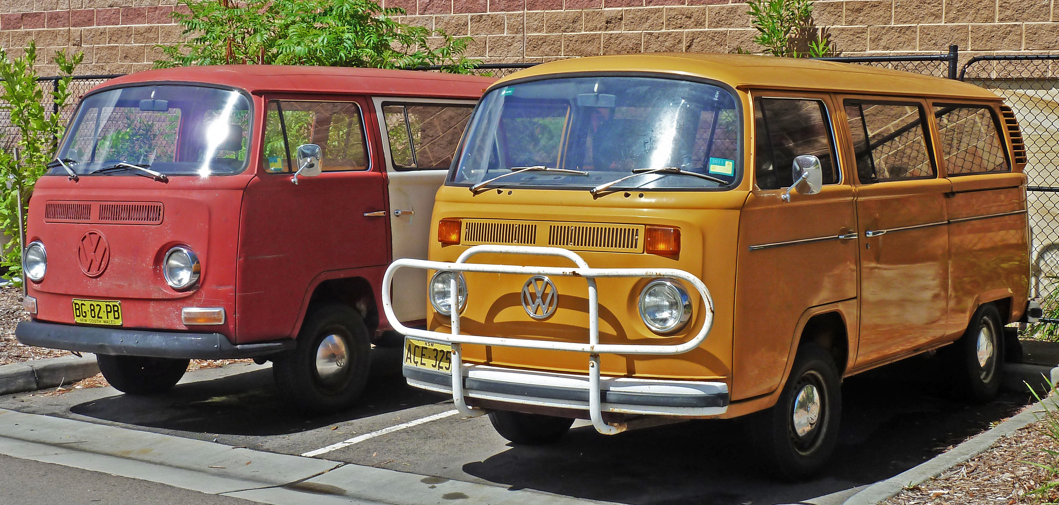 1970 and 1974 Volkswagen Kombi (T2) vans. Photographed in Cronulla, New South Wales, Australia.